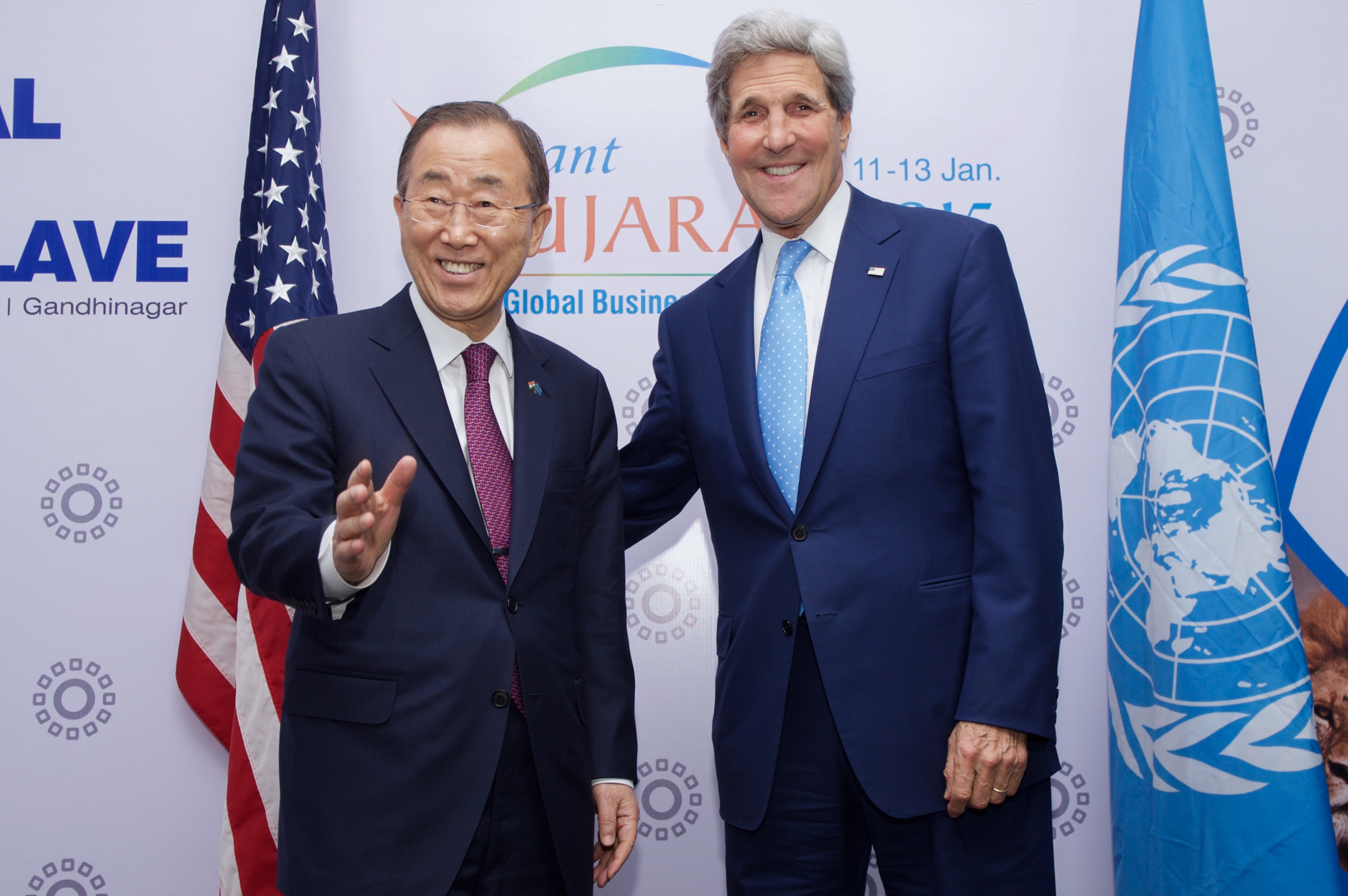 U.S. Secretary of State John Kerry laughs with United Nations Secretary-General Ban Ki-moon before a bilateral meeting after both addressed the opening plenary session of the 7th Vibrant Gujarat Summit in Gandhinagar, India, on January 11, 2014. [State Department photo/ Public Domain]